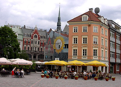 Domplatz (main church's square) in Riga